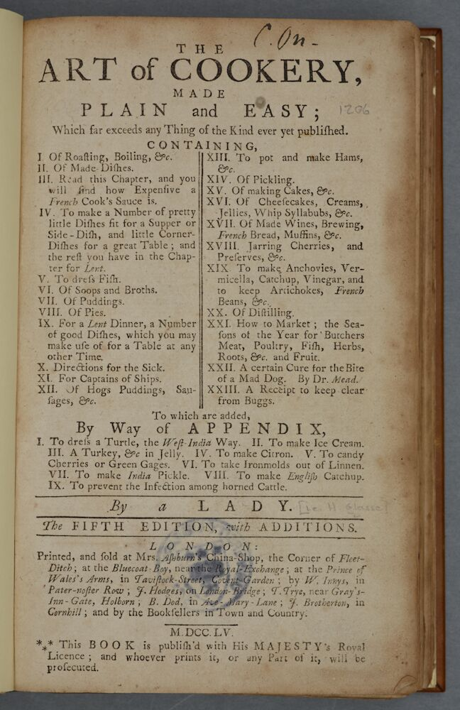 Title page of the 5th edition showing the index and the additional recipes in the appendix.